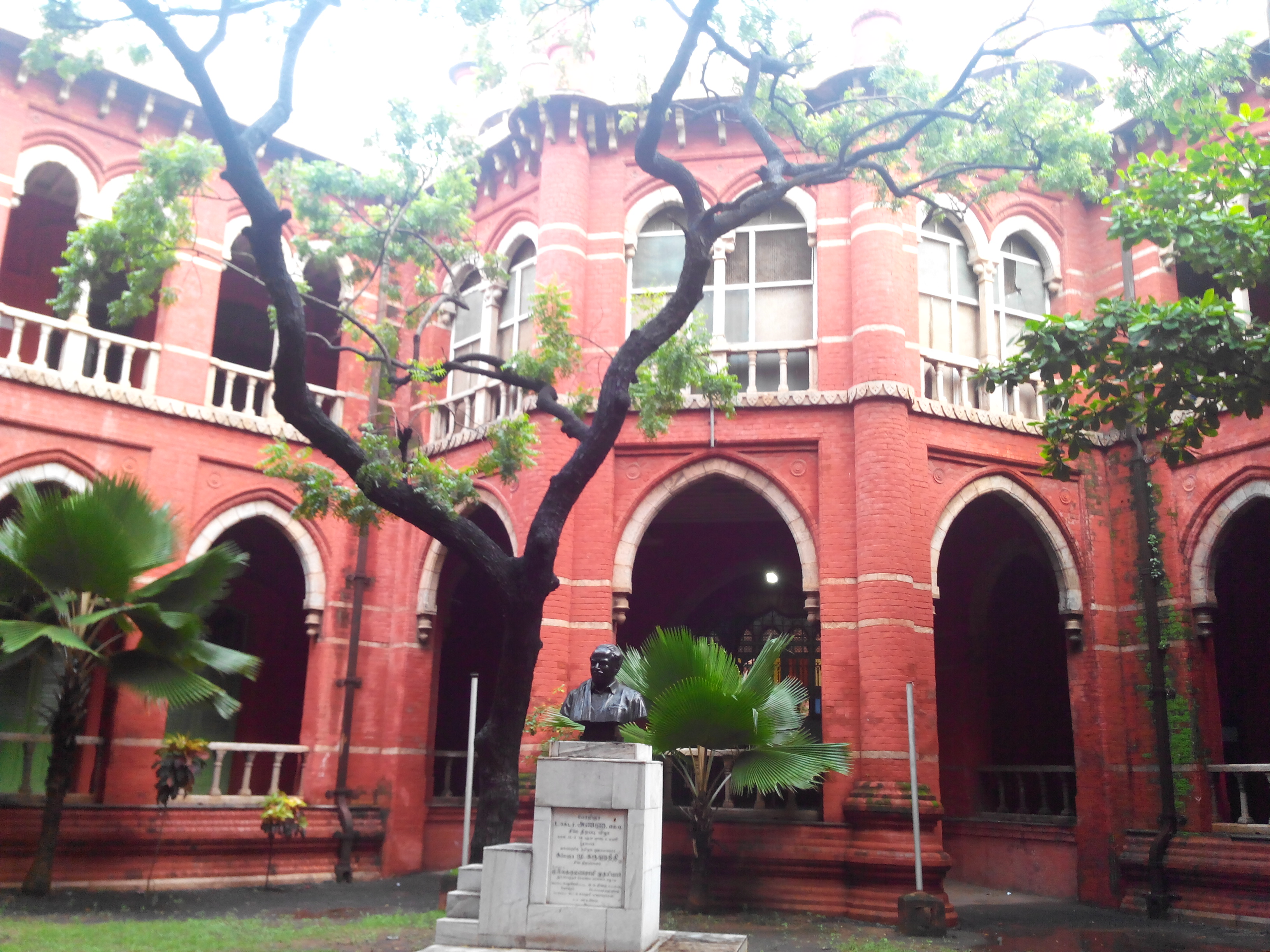 The Madras Law College, Pic taken while standing at the old entrance.